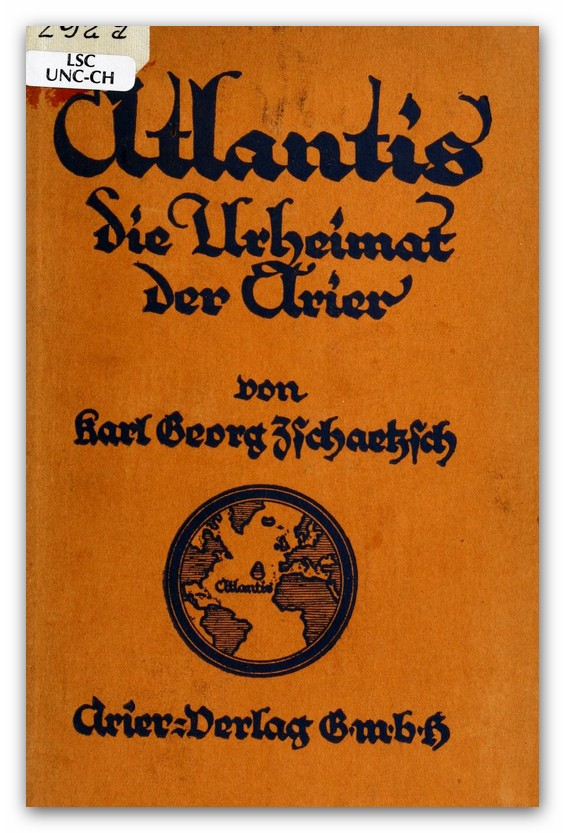 Cover page from the book Atlantis, die Urheimat der Arier.